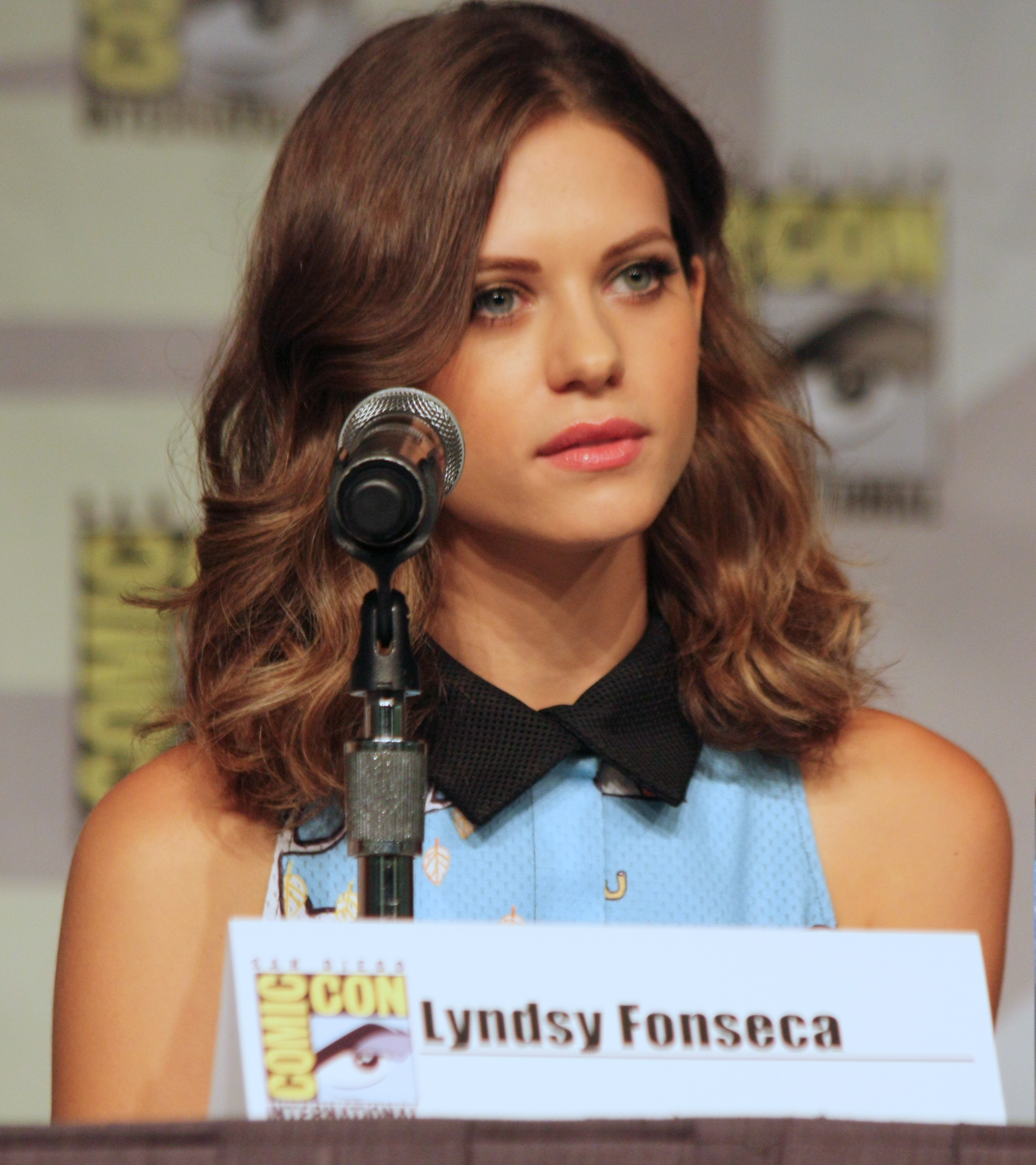 Lyndsy Fonseca 2013 at the Comic Con International, on the Nikita-Panel, at the San Diego Convention Center in San Diego, California.